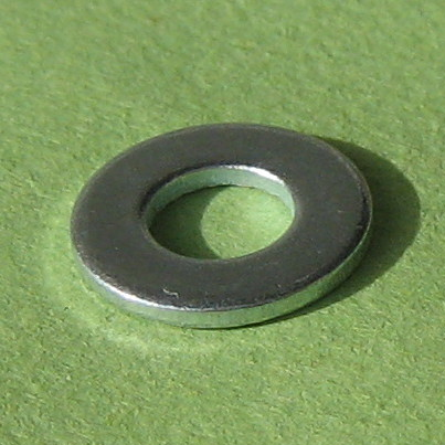 Washer and spring lock washer